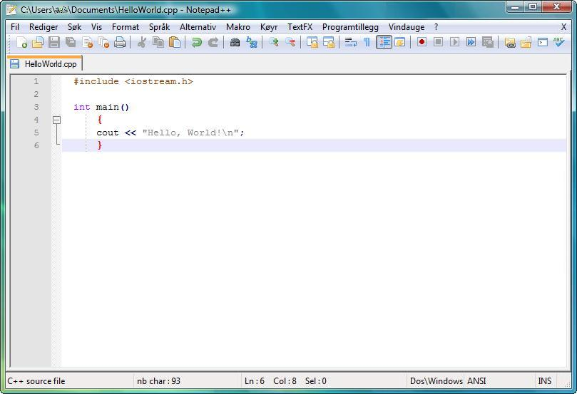 Source file editing with Notepad++